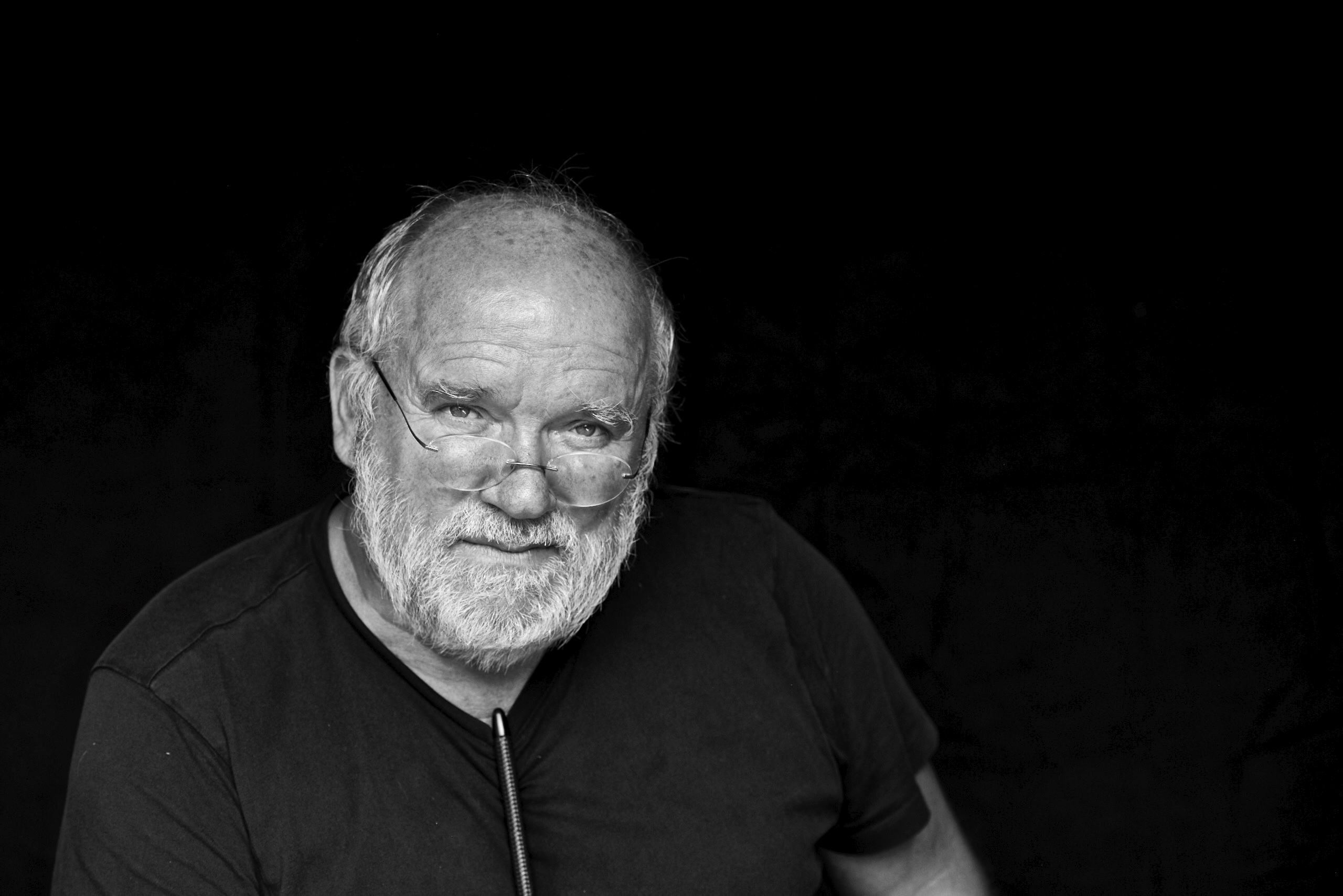 Peter Lindbergh Wikipedia portrait